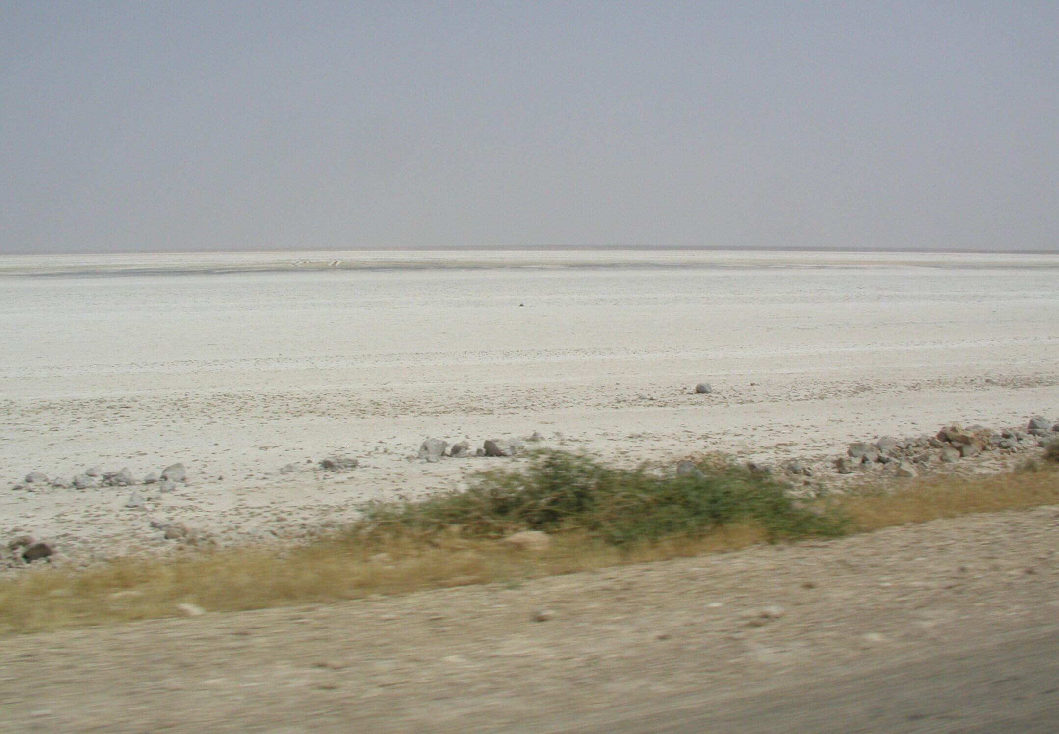 Salt remaining on the floor of Jabbul Lake in August after water has evaporated in this shallow section of the lake